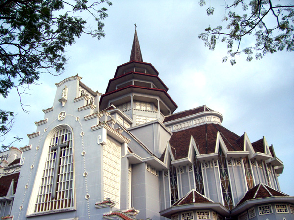 Hue Anglican Church in Hue city, Vietnam.